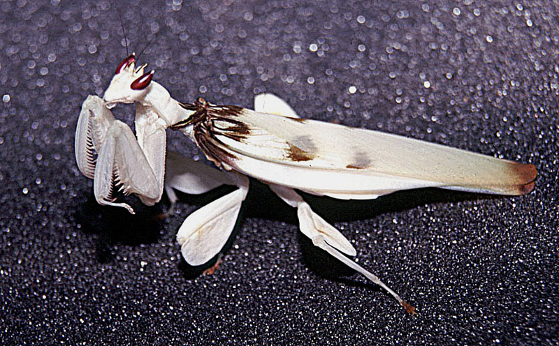 An unusual, red-eyed flower mantis in central Sumatra.